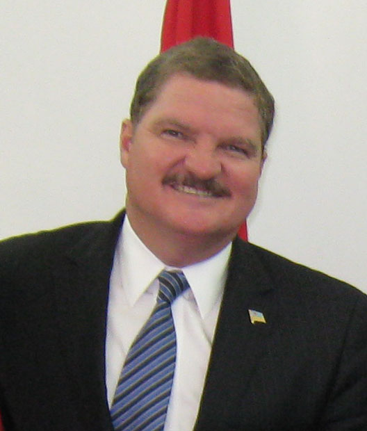 Aruba Governor Mike Eman